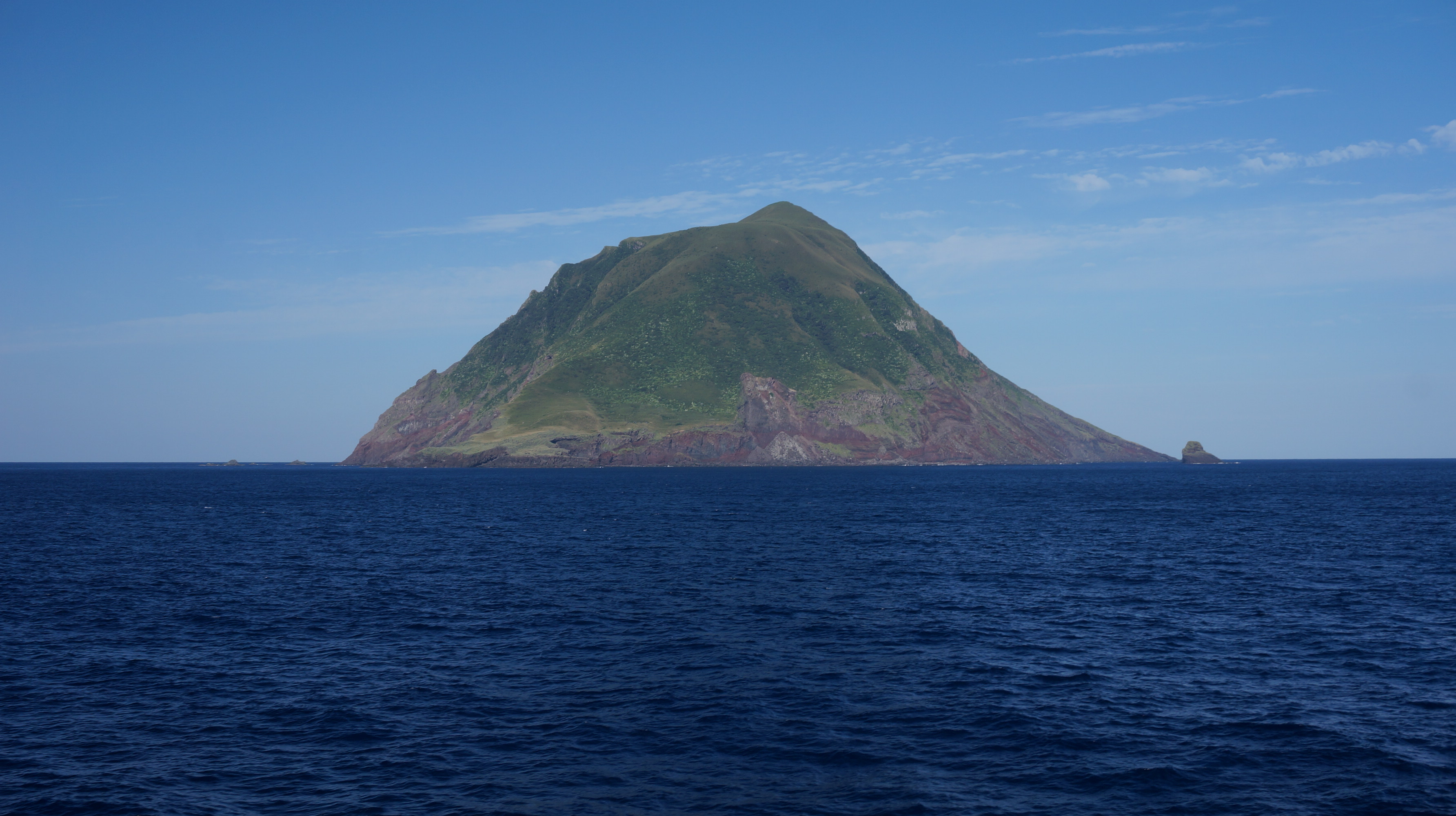 Hachijo-kojima, an island of the Izu Islands, Tokyo, Japan.